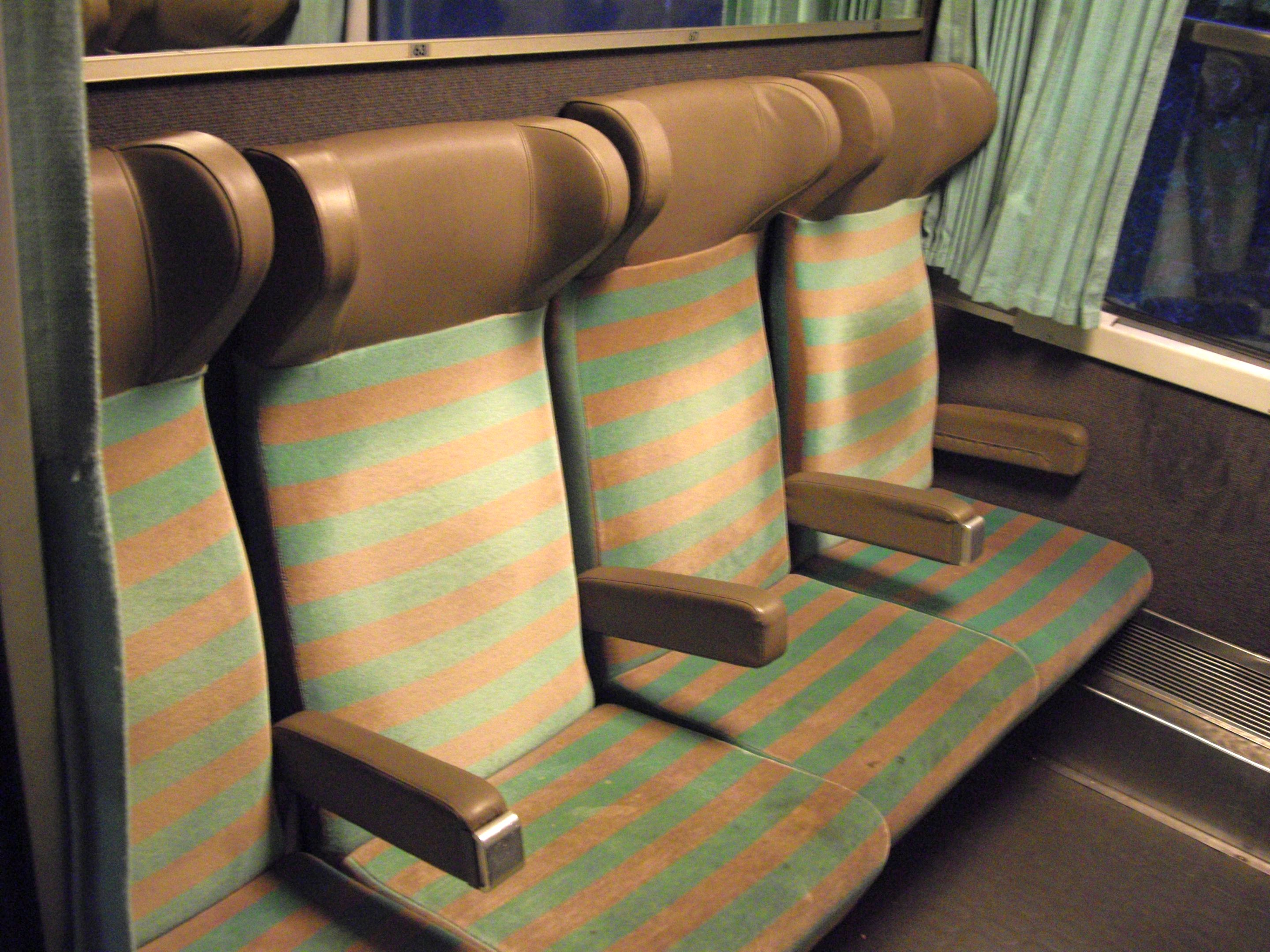 2nd class compartment, SNCF B6Dux railway passenger coach